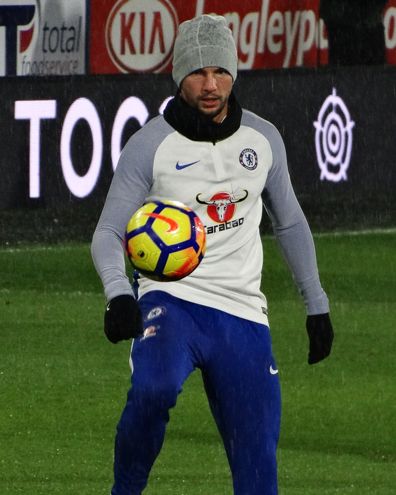 Danny Drinkwater warming up in 2017